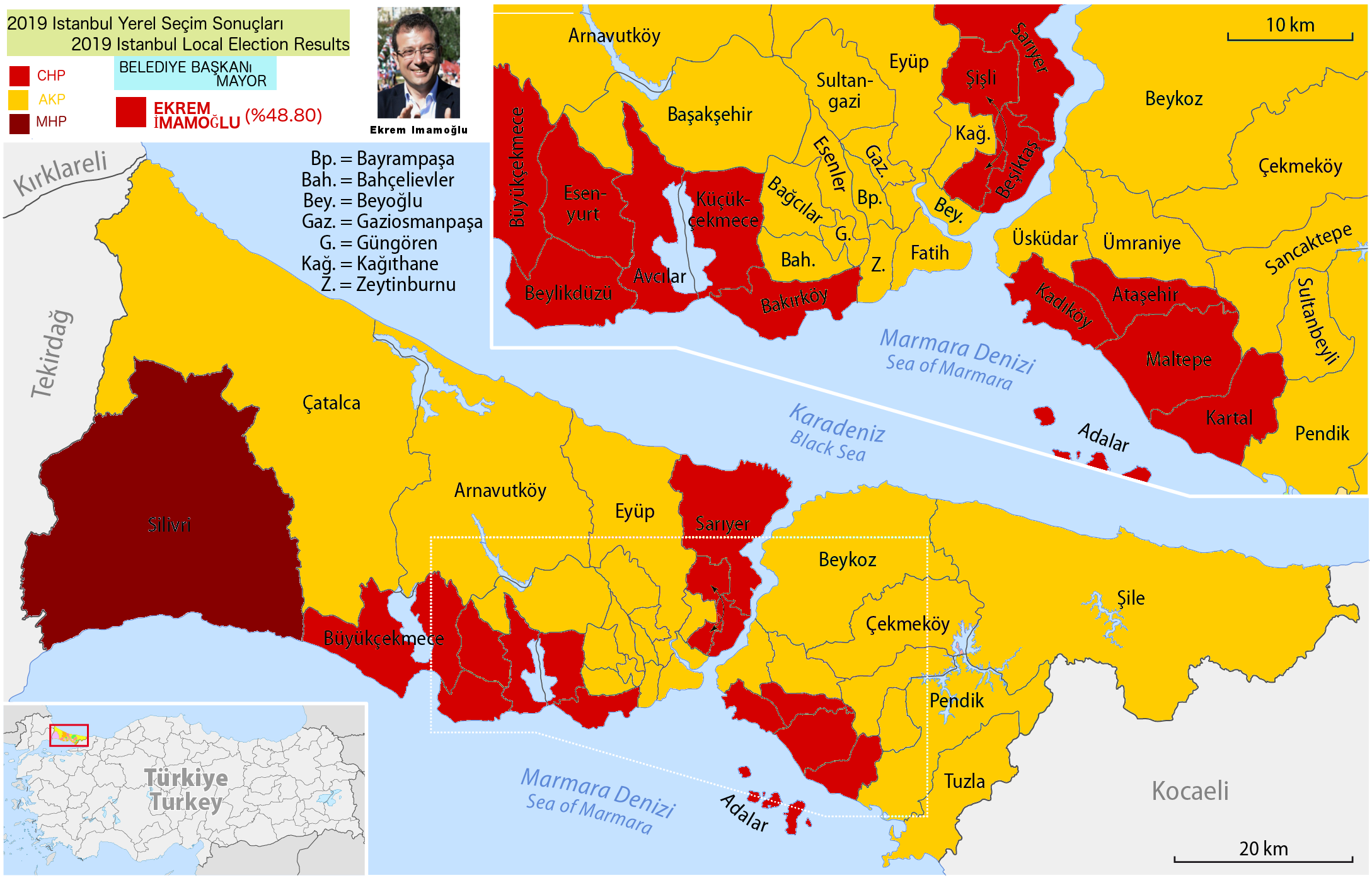 2019 Local Election results in Istanbul Province by district, CHP in light red, AKP in yellow, MHP in dark red.